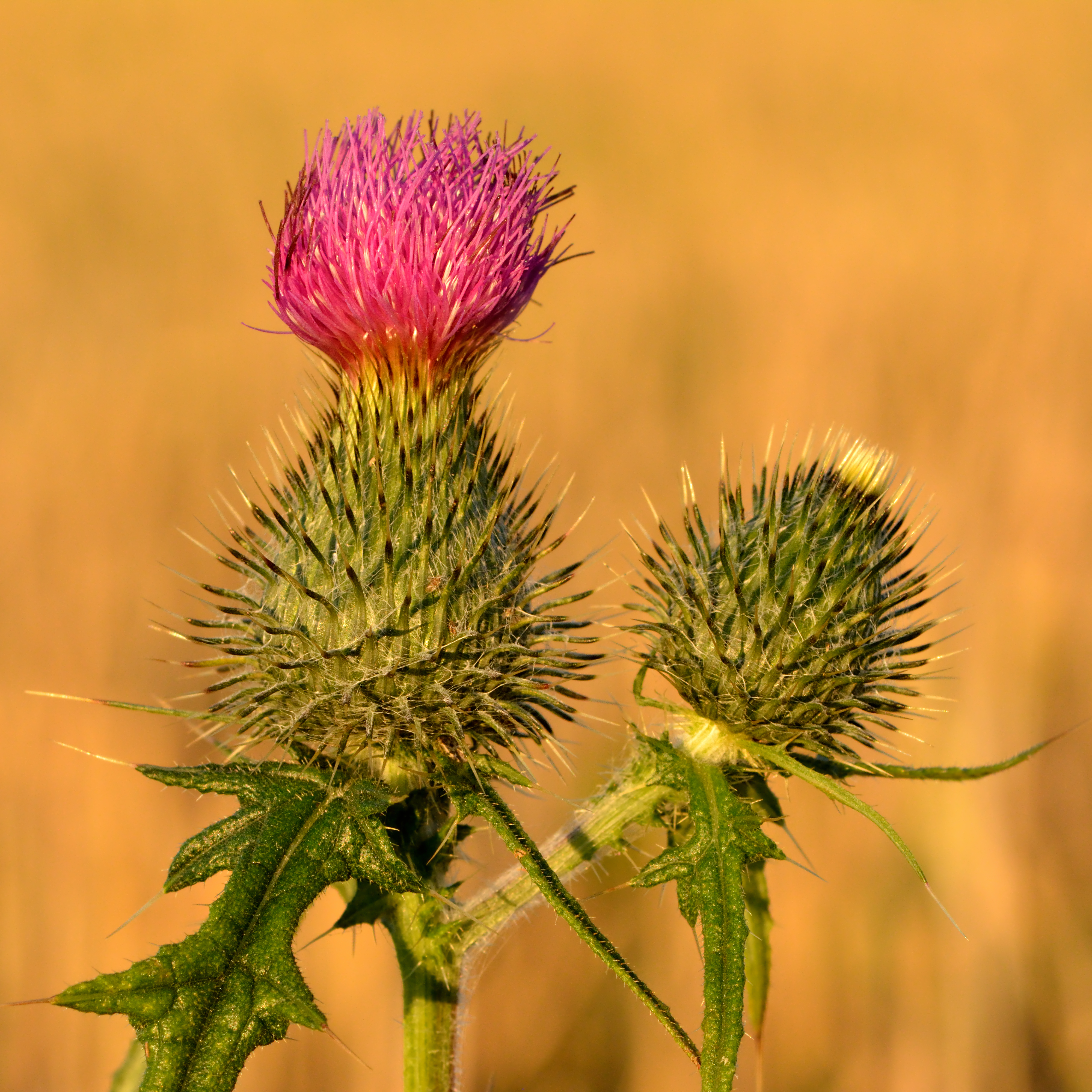 Spear thistle (Cirsium vulgare). Keila, Northwestern Estonia.